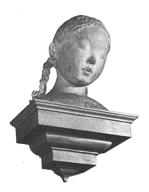 Photograph of a bust of Virginia Dare, formerly in St Bride's Church Fleet St, sculpted by Marjory Meggit in 1957, stolen in 1999.